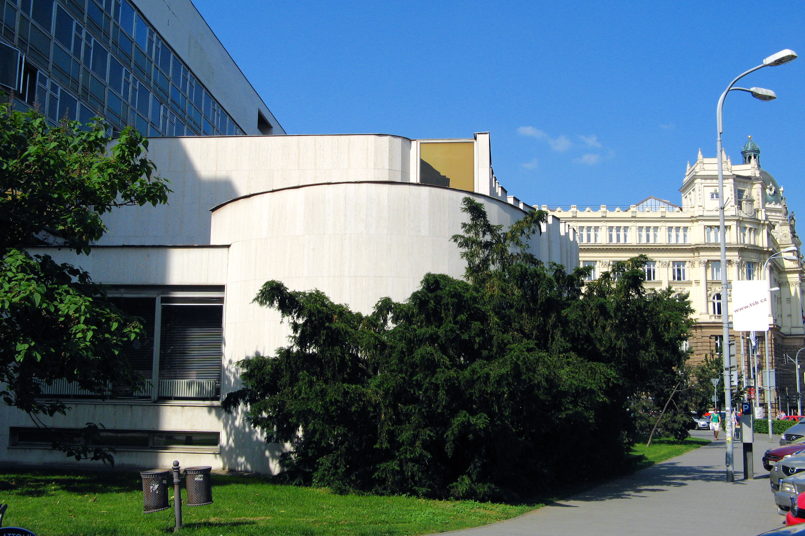 Bakala Hall in the White House, Žerotínovo square, Brno, Czech Republic. Česky: Sál Břetislava Bakaly, tzv. "Bílý dům", Žerotínovo náměstí 6, Brno. Pohled na budovu od jihozápadu směrem z ulice Marešova.